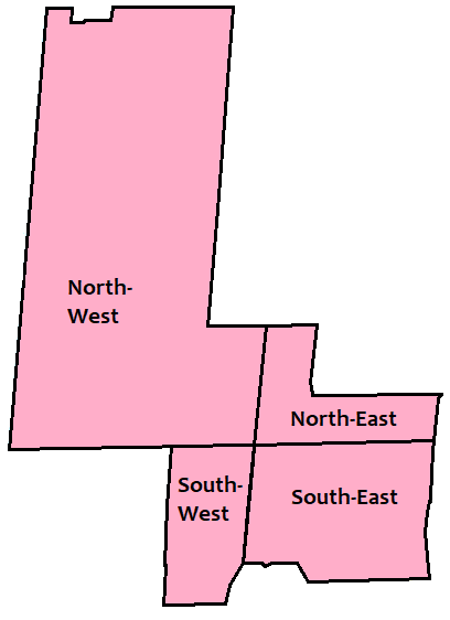 Map of Milton, Ontario's four wards used since 2018